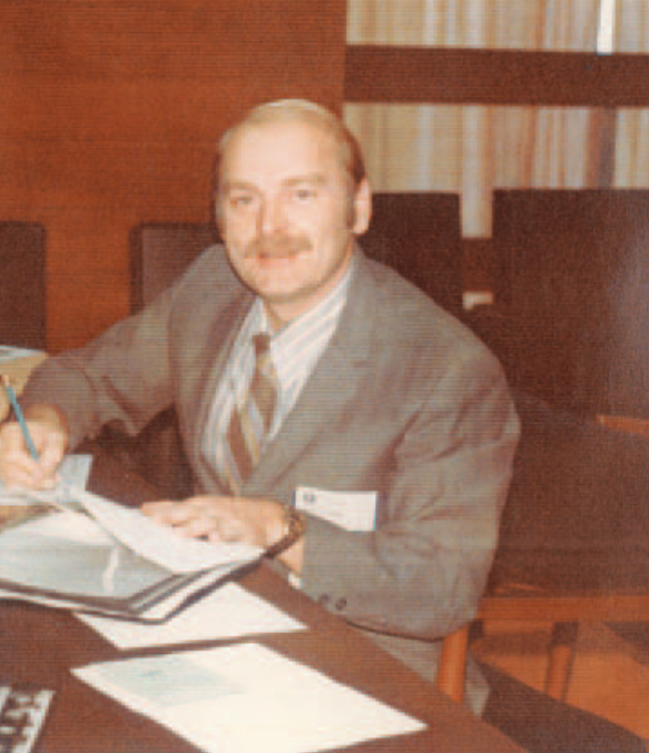 Verno F. Dvorak, meteorologist that has developped a tehcnique to assess tropical cyclone from satellite photos while working at the American National Weather Service. This technique is used worldwide.